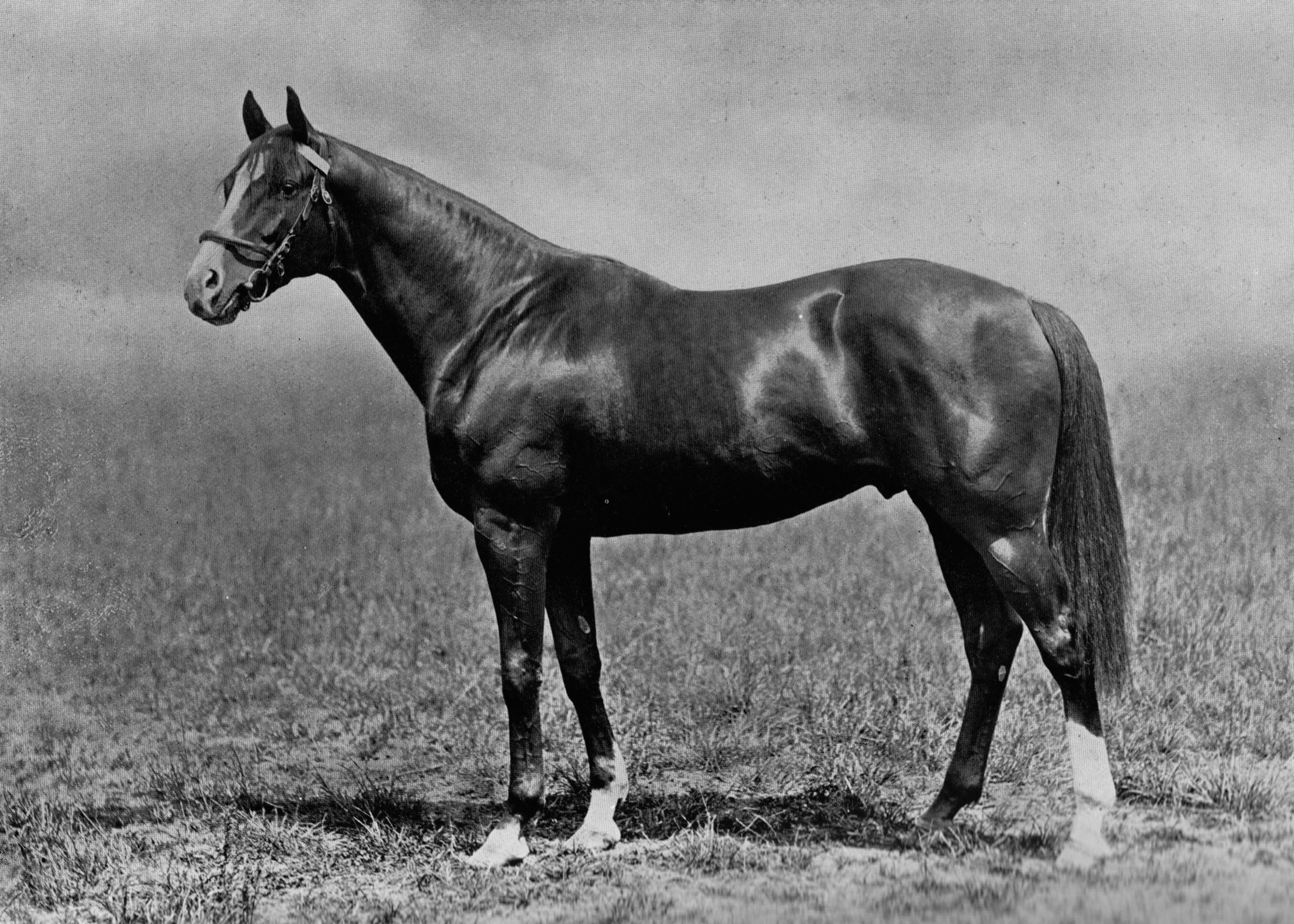 Captain Cuttle, 1922 Epsom Derby winner.